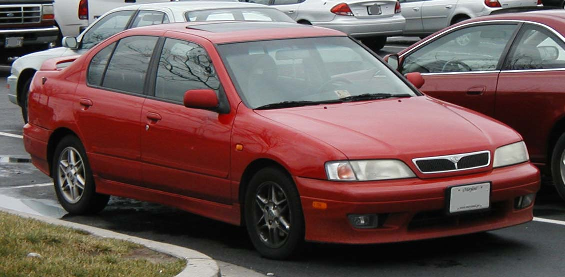 1991-2002 Infiniti G20 photographed in USA.